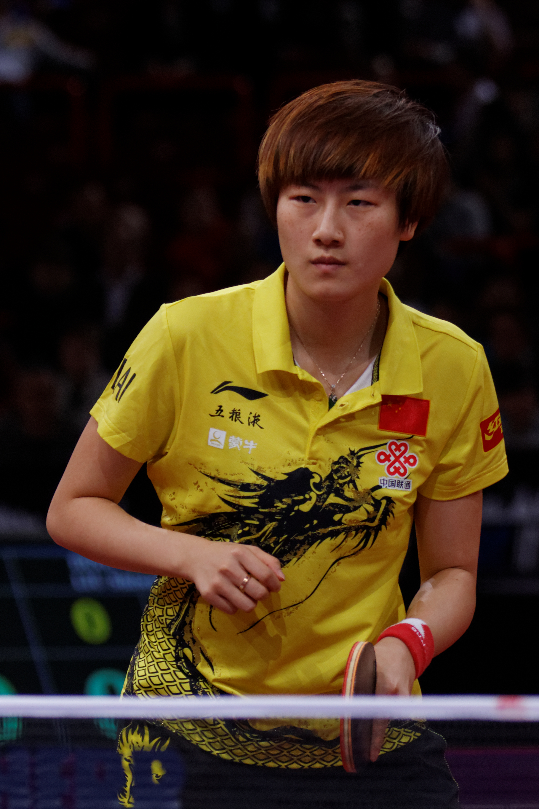 2013 World Table Tennis Championships, Paris. Women's Doubles Finals.